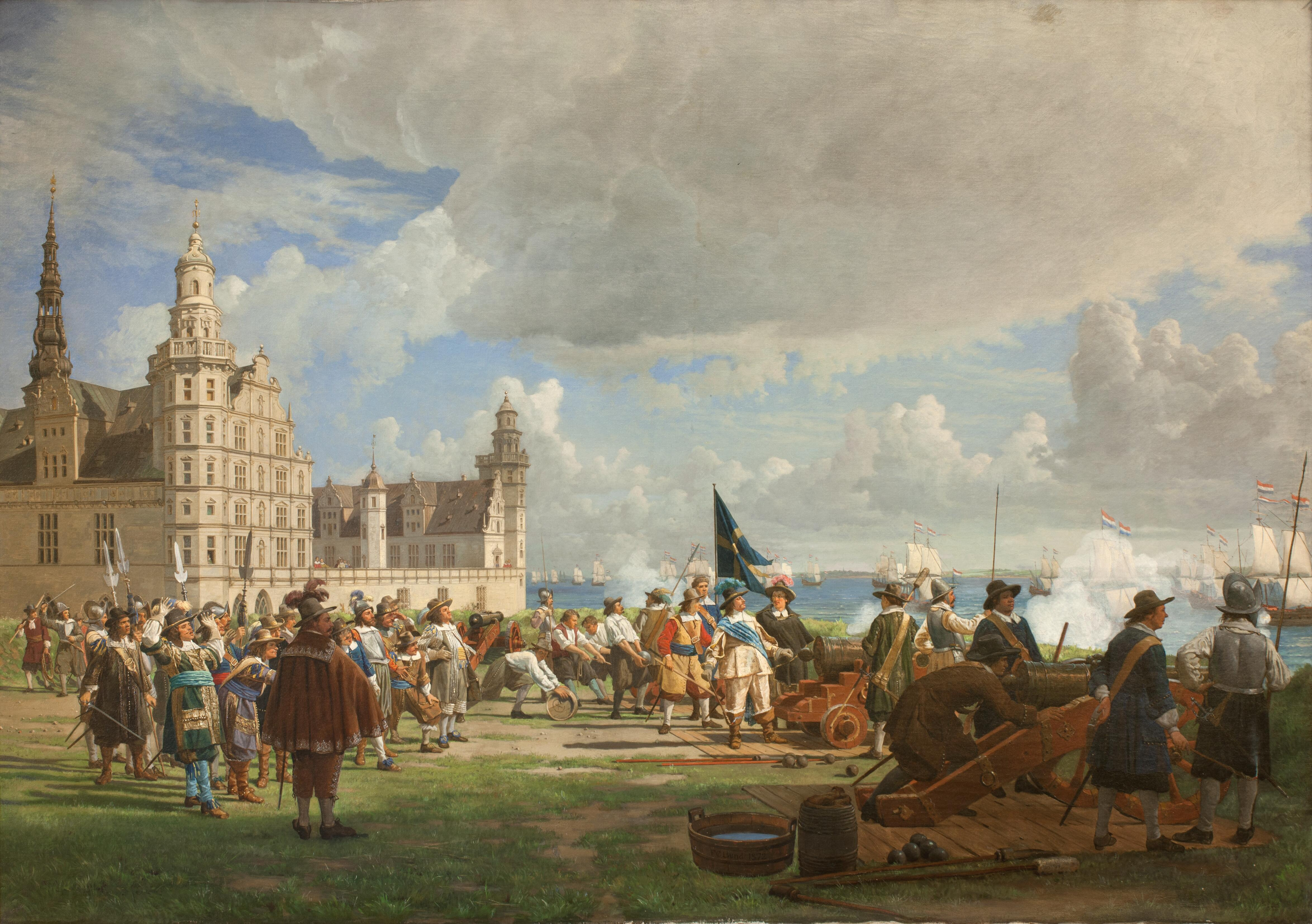 This painting depicts the opening phase of the Battle of the Sound. The fleet pressed past Kronborg Castle, occupied by the Swedes, and king Carl X Gustav (in the centre) could only watch, because the ships kept close to the opposite side of the entrance to the Sound - out of reach of the guns of Kronborg. After entering the Sound, the Dutch fleet was met by a slightly larger Swedish fleet, but fought its way through to relieve the Danish capital of Copenhagen.